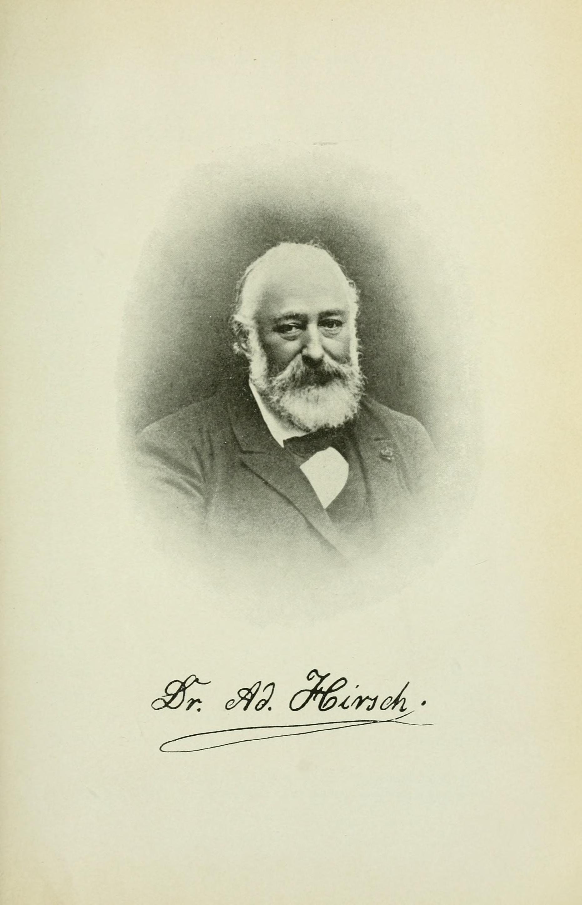 Title: Bulletin de la Soci neuchloise des sciences naturelles Year: 1898- (1890s) Authors: Soci neuchloise des sciences naturelles Subjects: Science; Natural history Publisher: Neuchl : Impr. wolfrath Text Appearing Before Image: feï:^-^ .W,.^i -^g^ Êm* Text Appearing After Image: c0r: ePf^. O^^'^û^ '